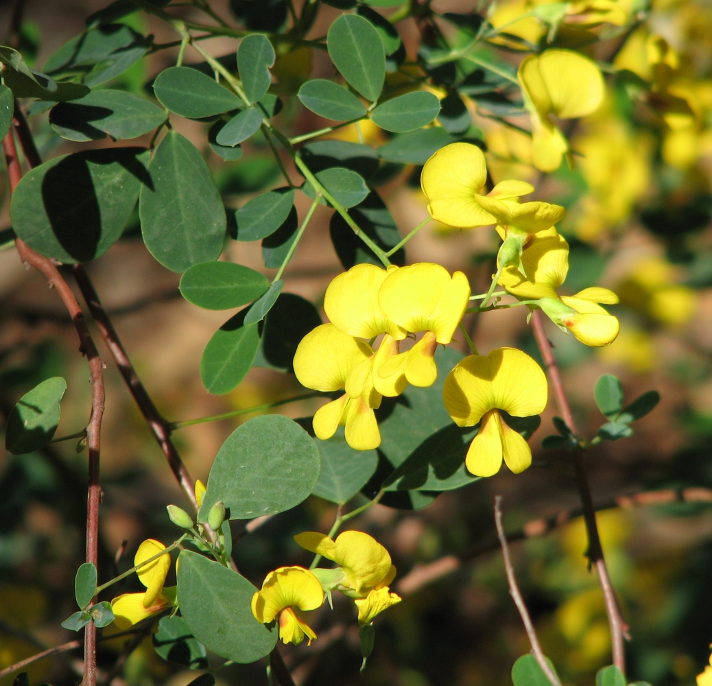 Goodia lotifolia (cultivated, labelled) Maranoa Gardens, Balwyn, Victoria, Australia